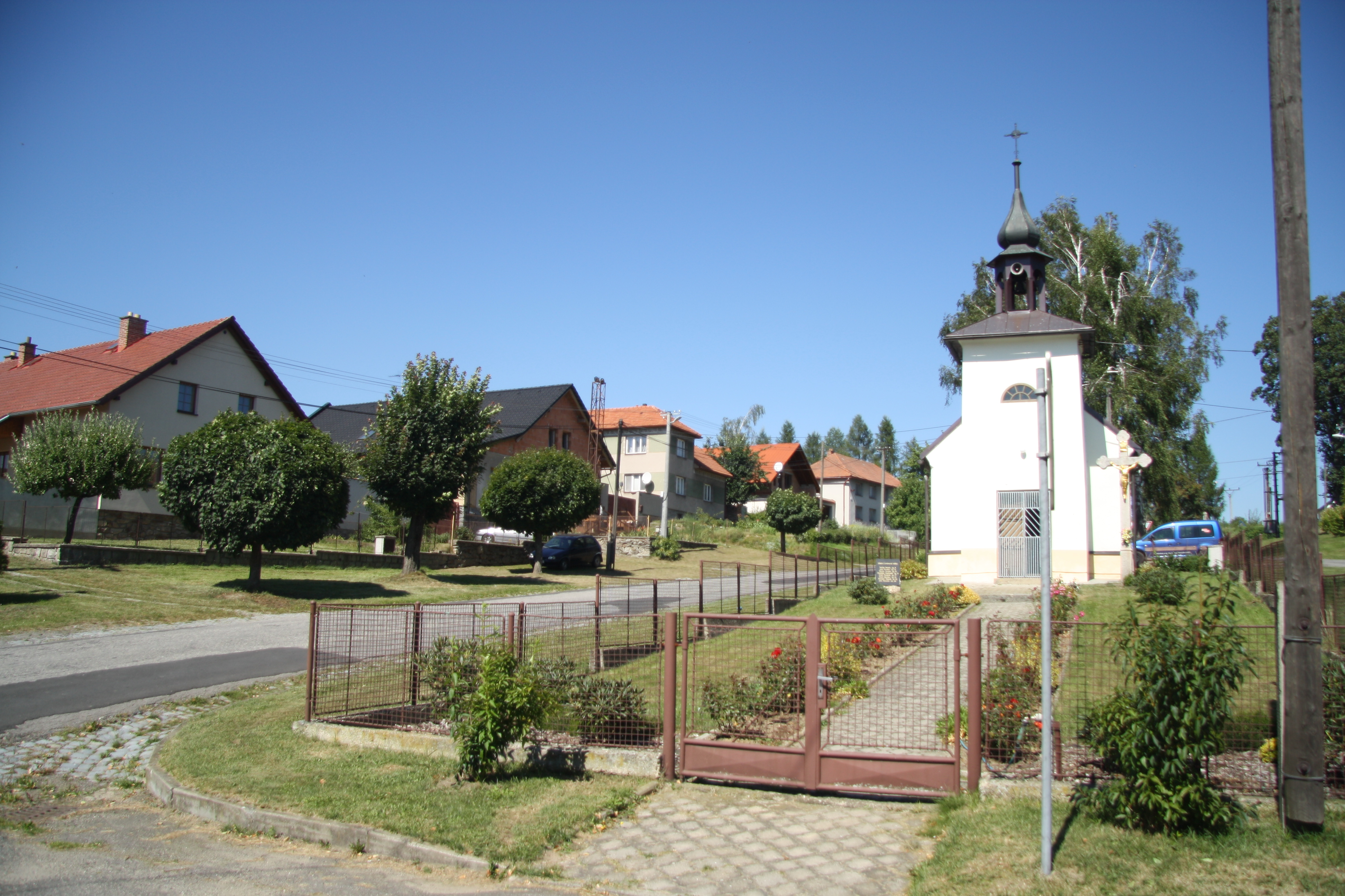 Center with chapel in Pokojov, Žďár nad Sázavou District.